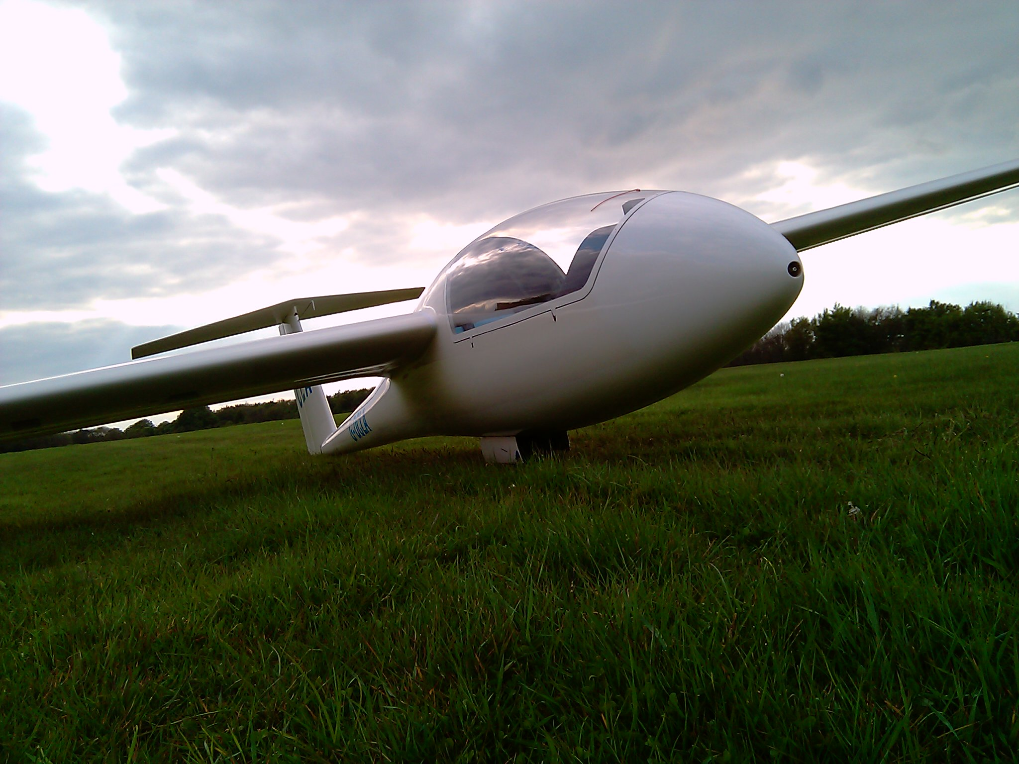 Standard Cirrus glider G-DCLA